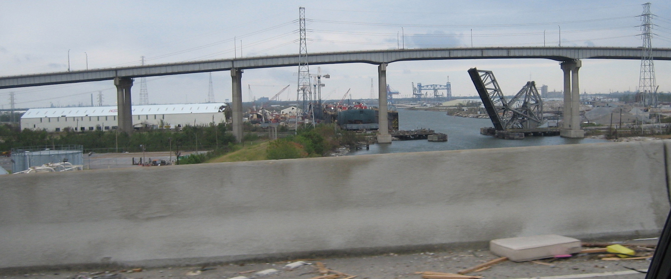 New Orleans Industrial Canal looking riverward from the Danziger (Gentilly Road) Bridge, with the I-10 "High Rise" Bridge visible near by. Photo by Infrogmation.